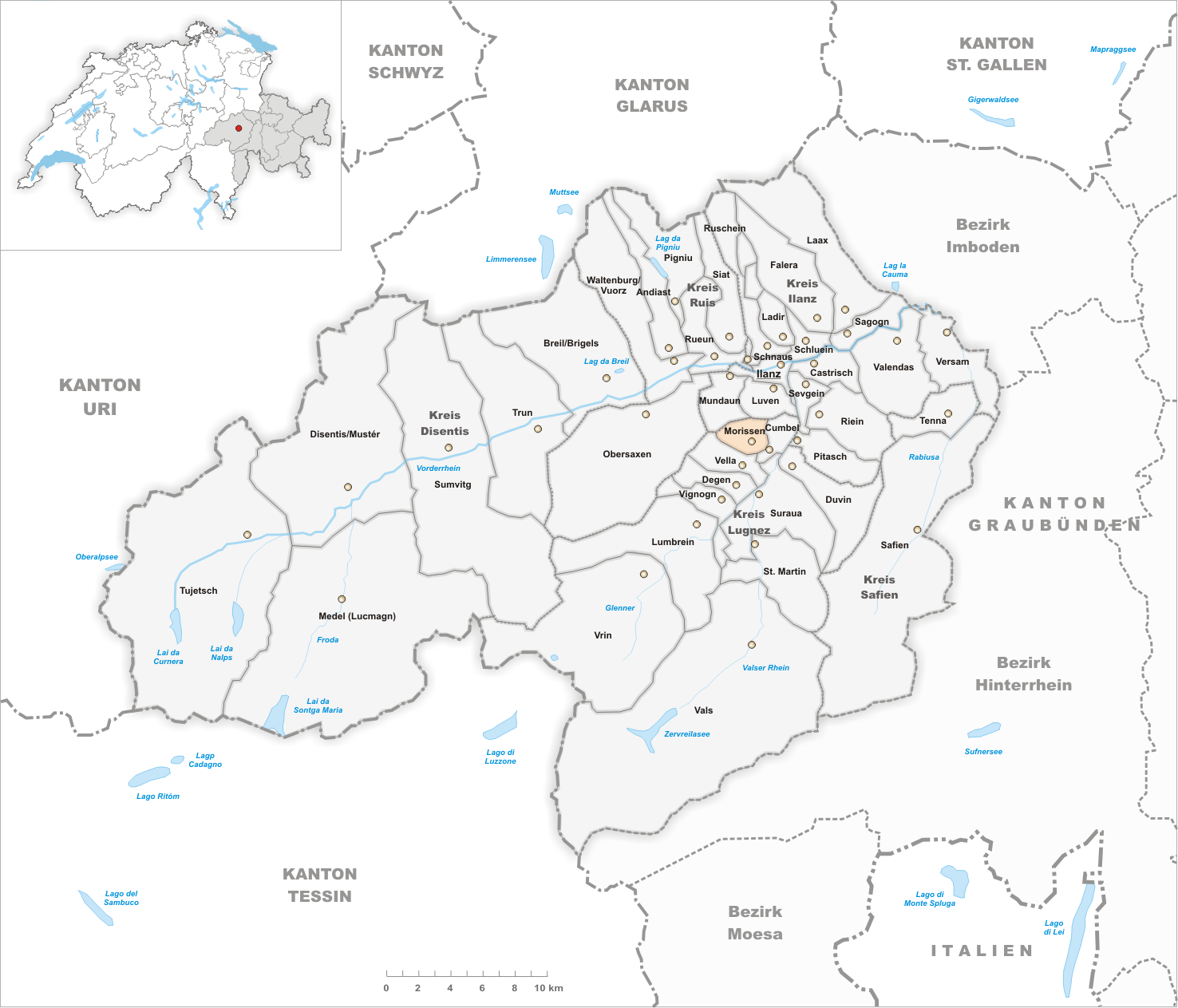 Municipality Morissen